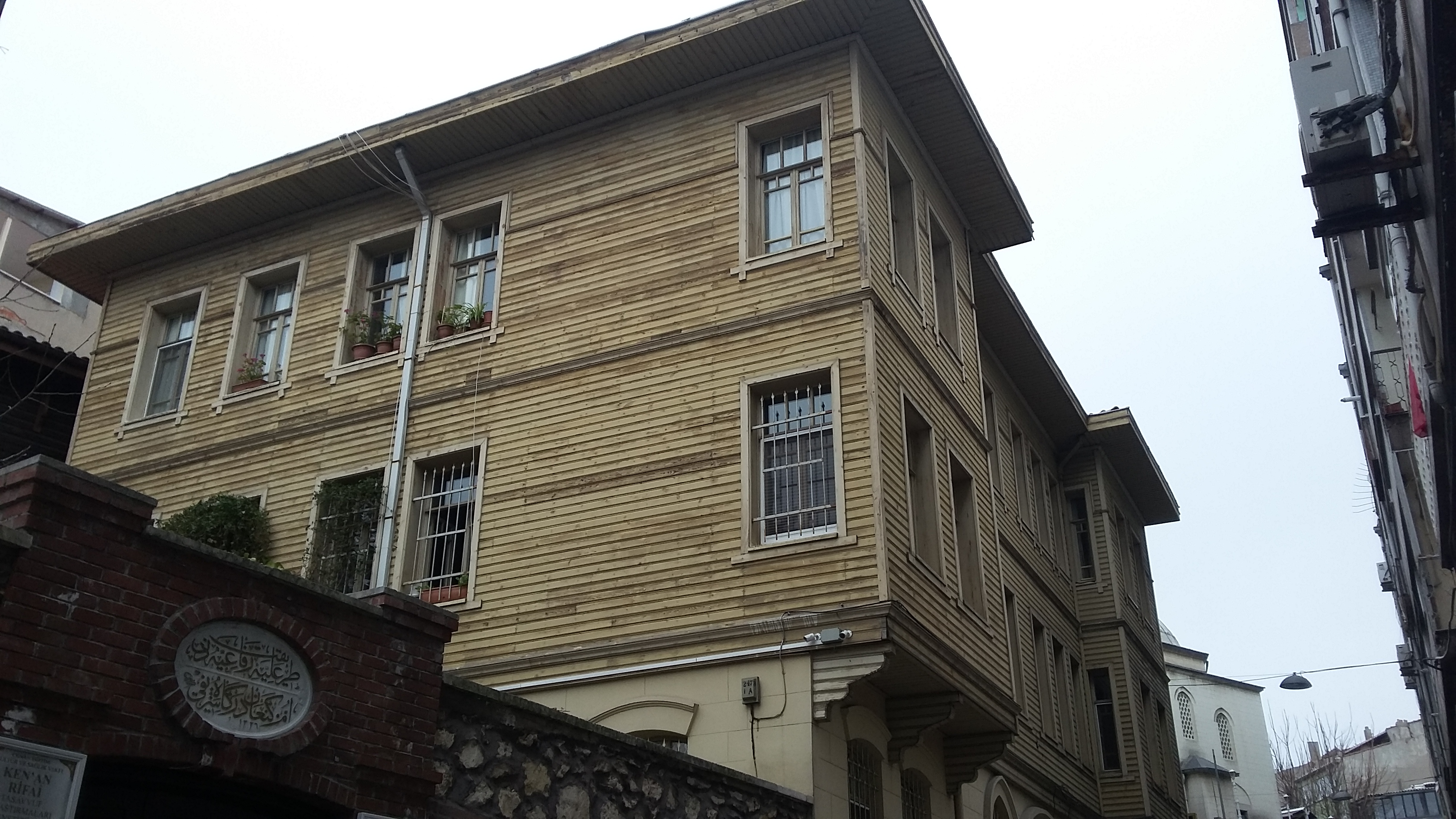 Kenan Rifai Mansion